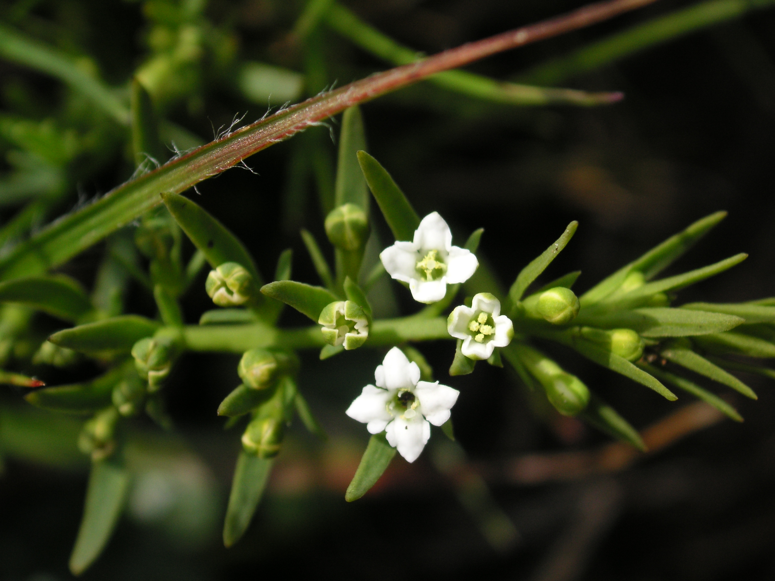 Thesium alpinum